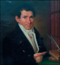 French naturalist Antoine Risso (1777-1845)